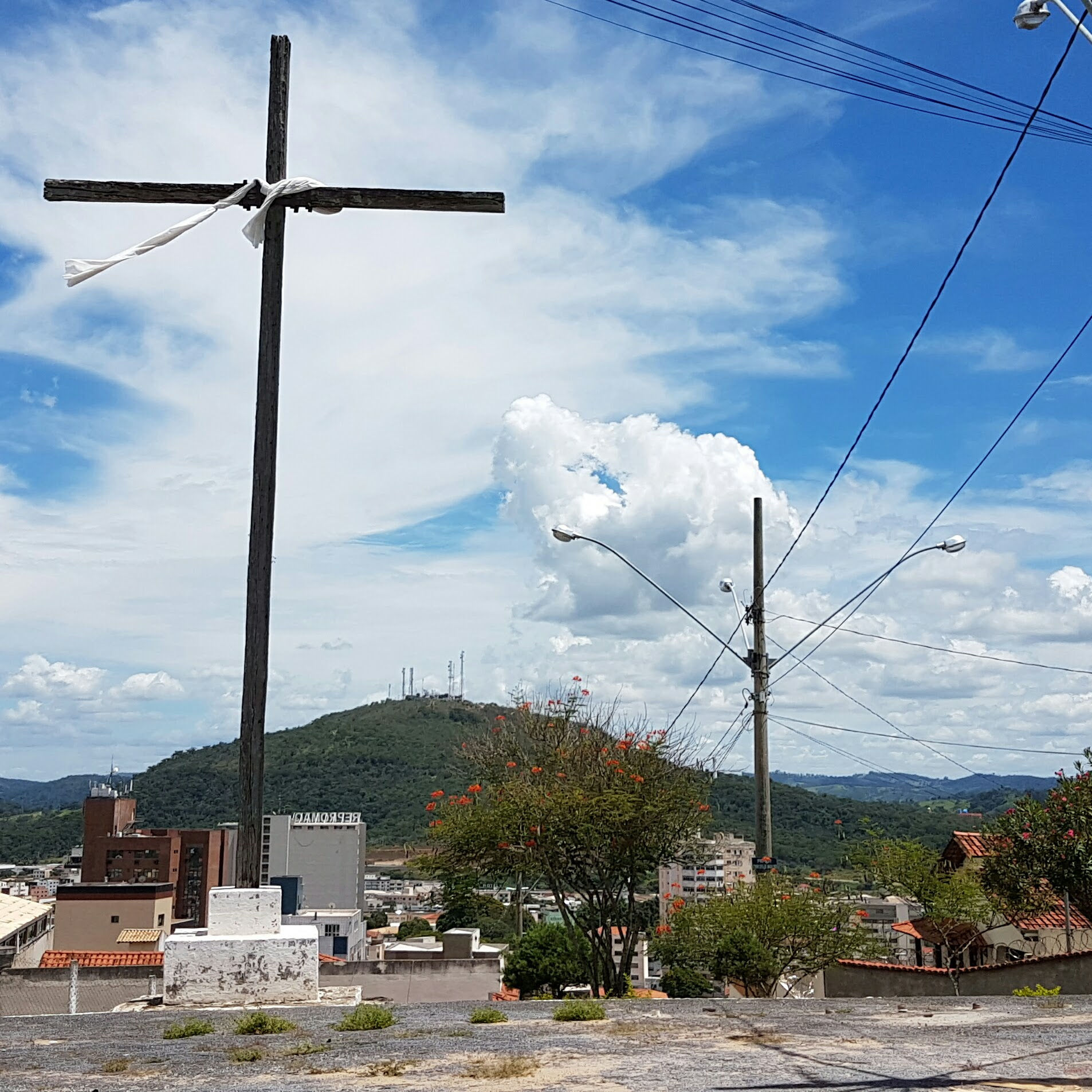 The Cross at Rosary Hill, Itauna, Minas Gerais, Brazil